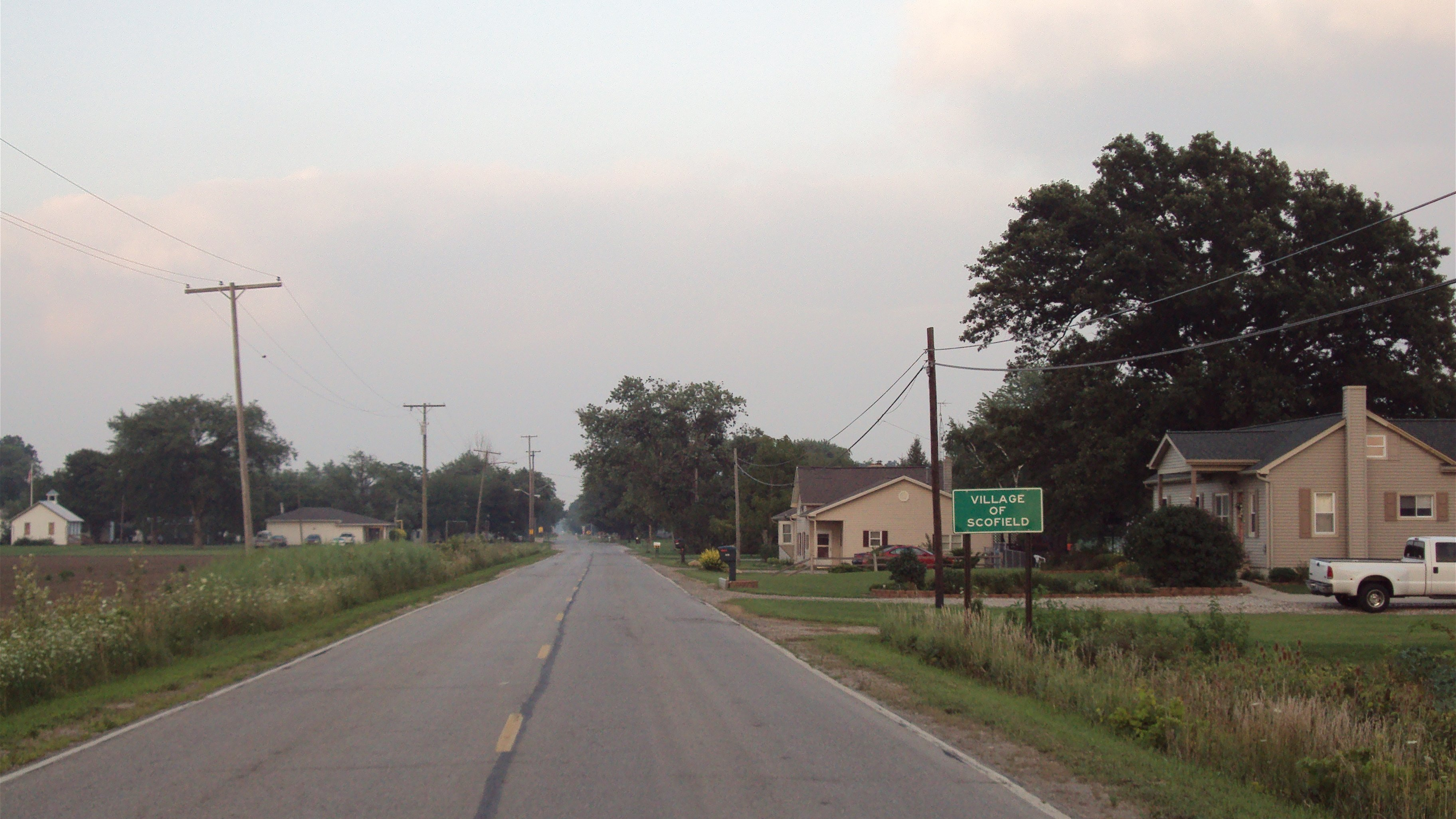 Scofield, Michigan